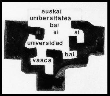 Logo of EHU-UPV